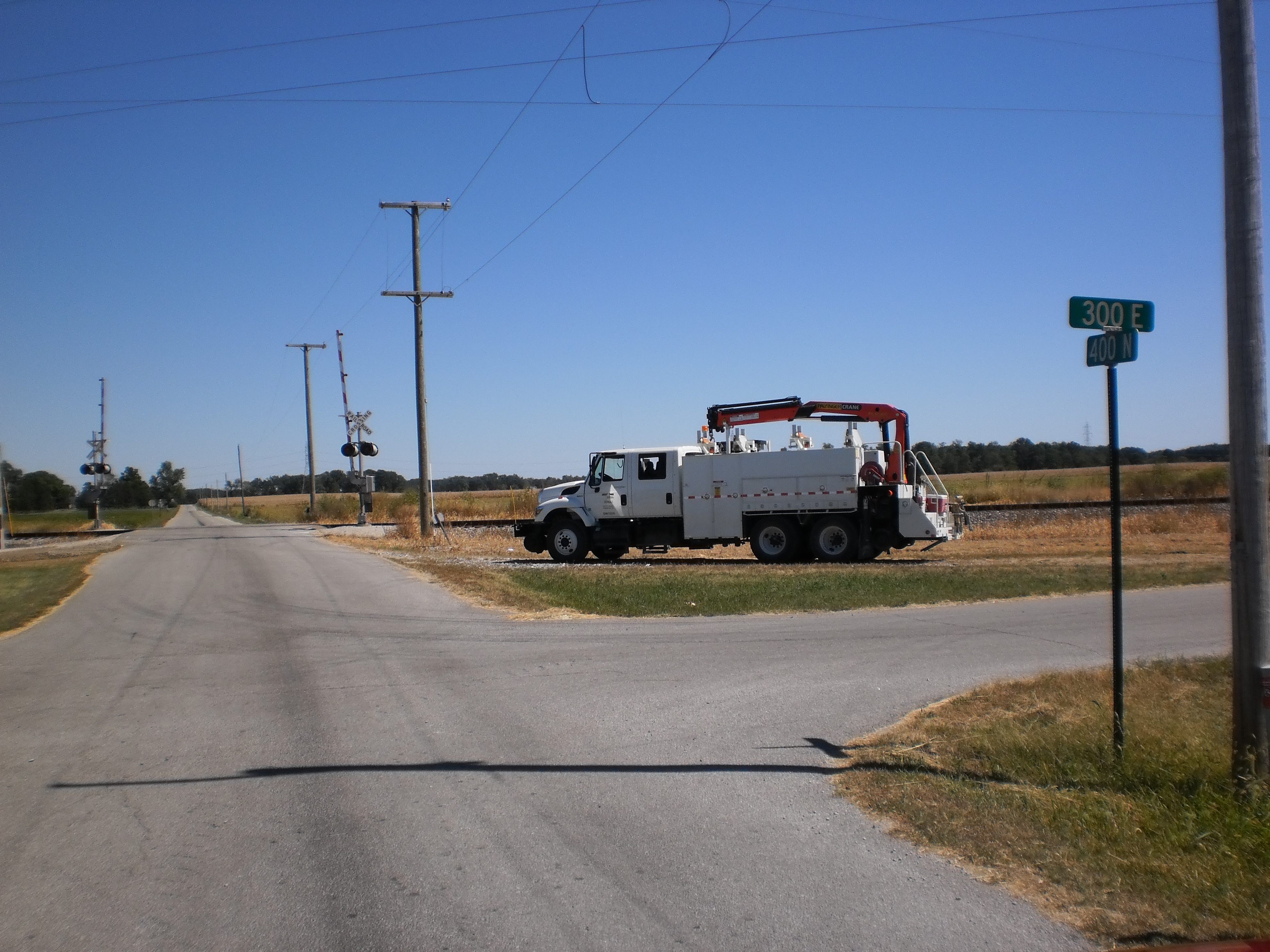 Location of the former village named Mollie, in Blackford County, Indiana, USA.